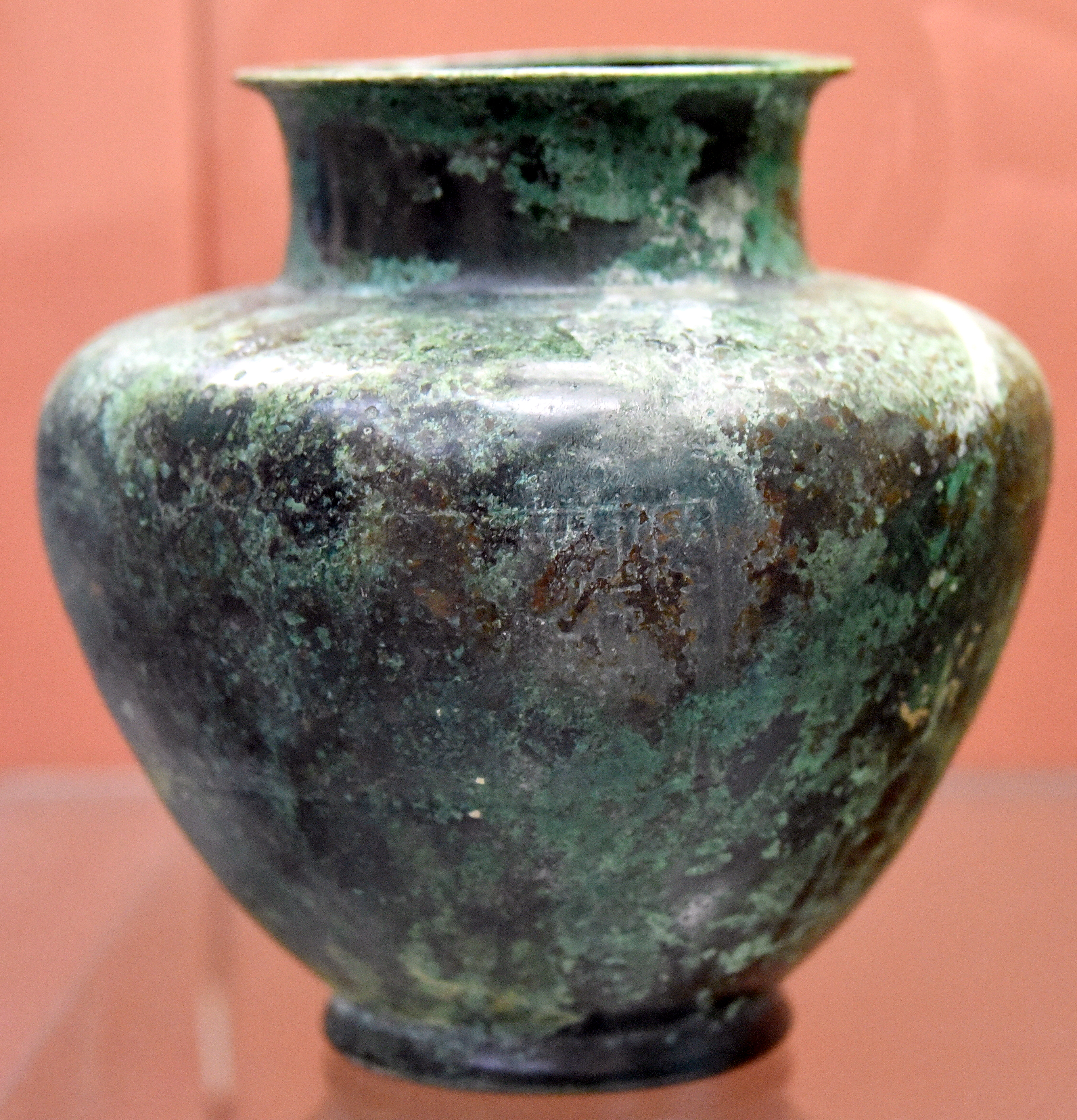 Copper alloy vase inscribed with a Sumerian text mentioning the name of Utu-hegal, king of Uruk, credited with driving out the Gutian invaders. From Uruk, Iraq. Reign of Utu-hegal, 2125 BCE. British Museum. This is the only known complete inscription dating to the reign of Utu-hegal.